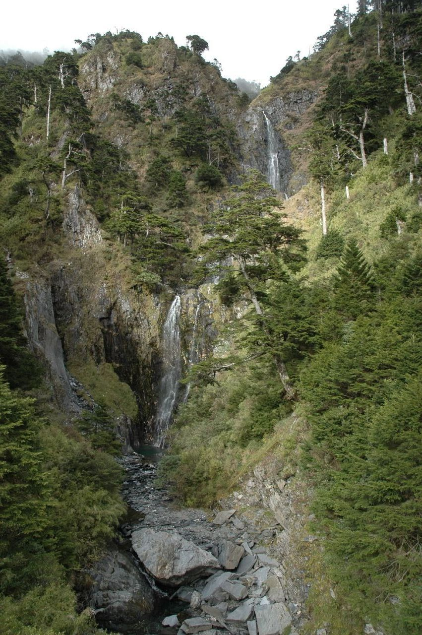 Nenggao Waterfall